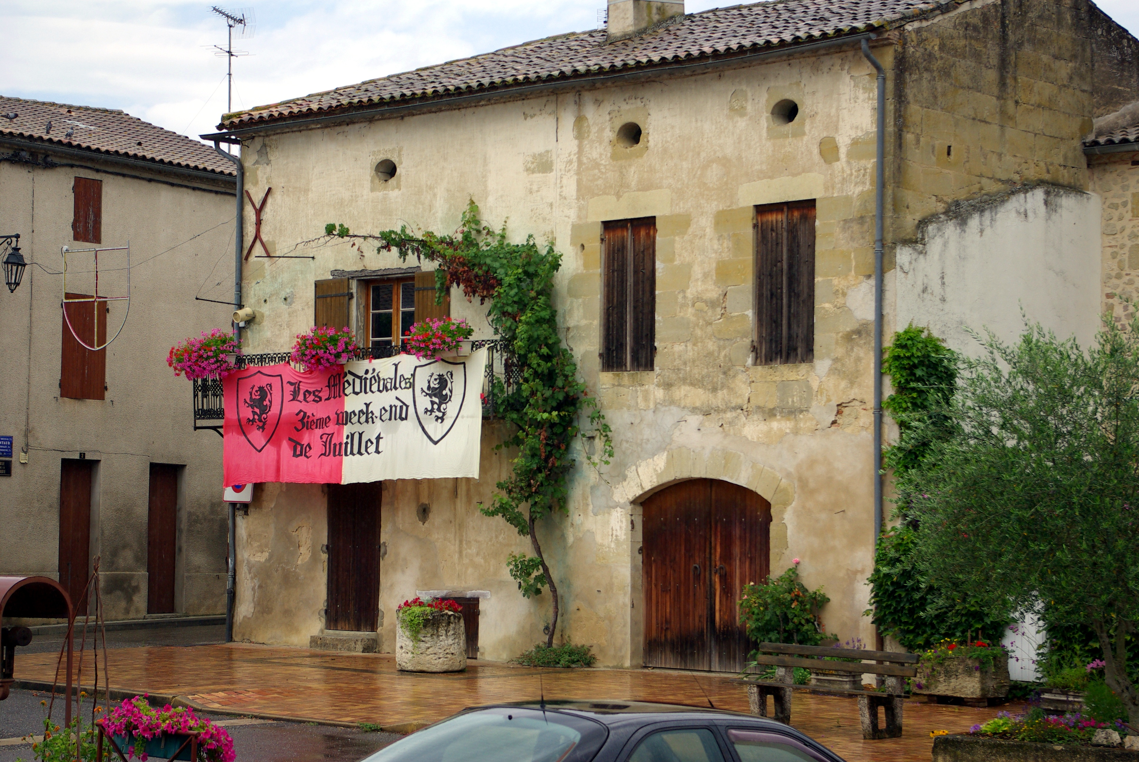 House of Gontaud-de-Nogaret (Lot-et-Garonne, France).